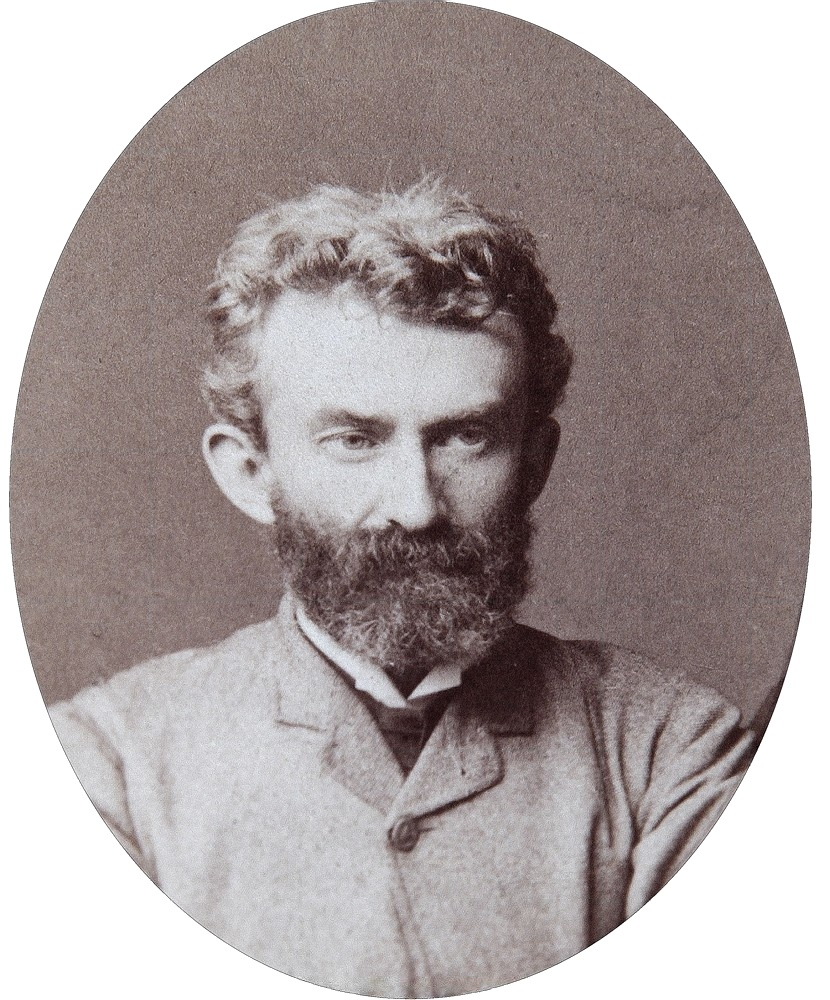 Nicholas Miklouho-Maclay